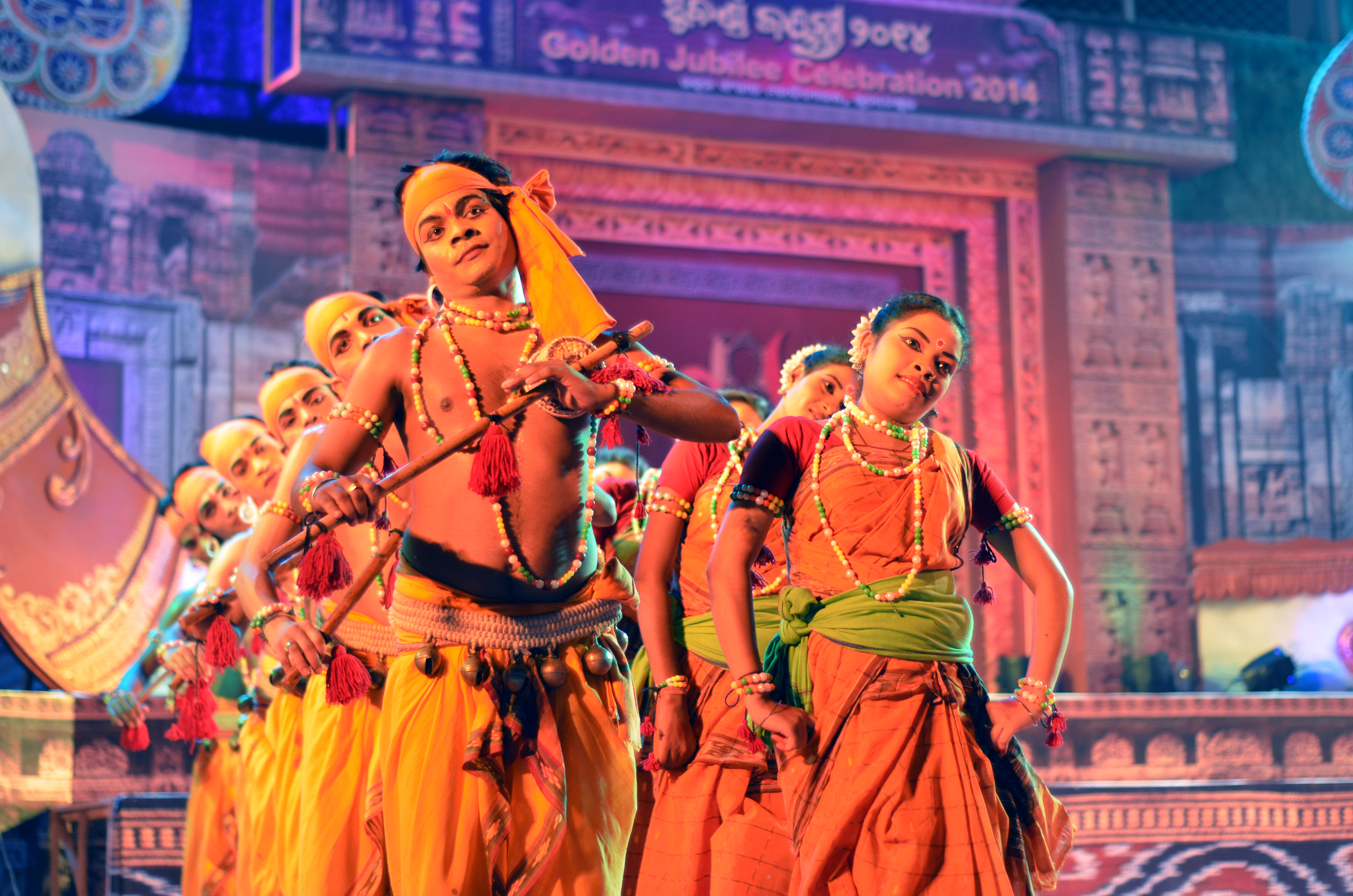 Mayurbhanj Chau artistes performing with depiction of Krishna and gopi, Utkal Sangeet Natak Mahavidyalaya, Bhubaneswar, Odisha, India.